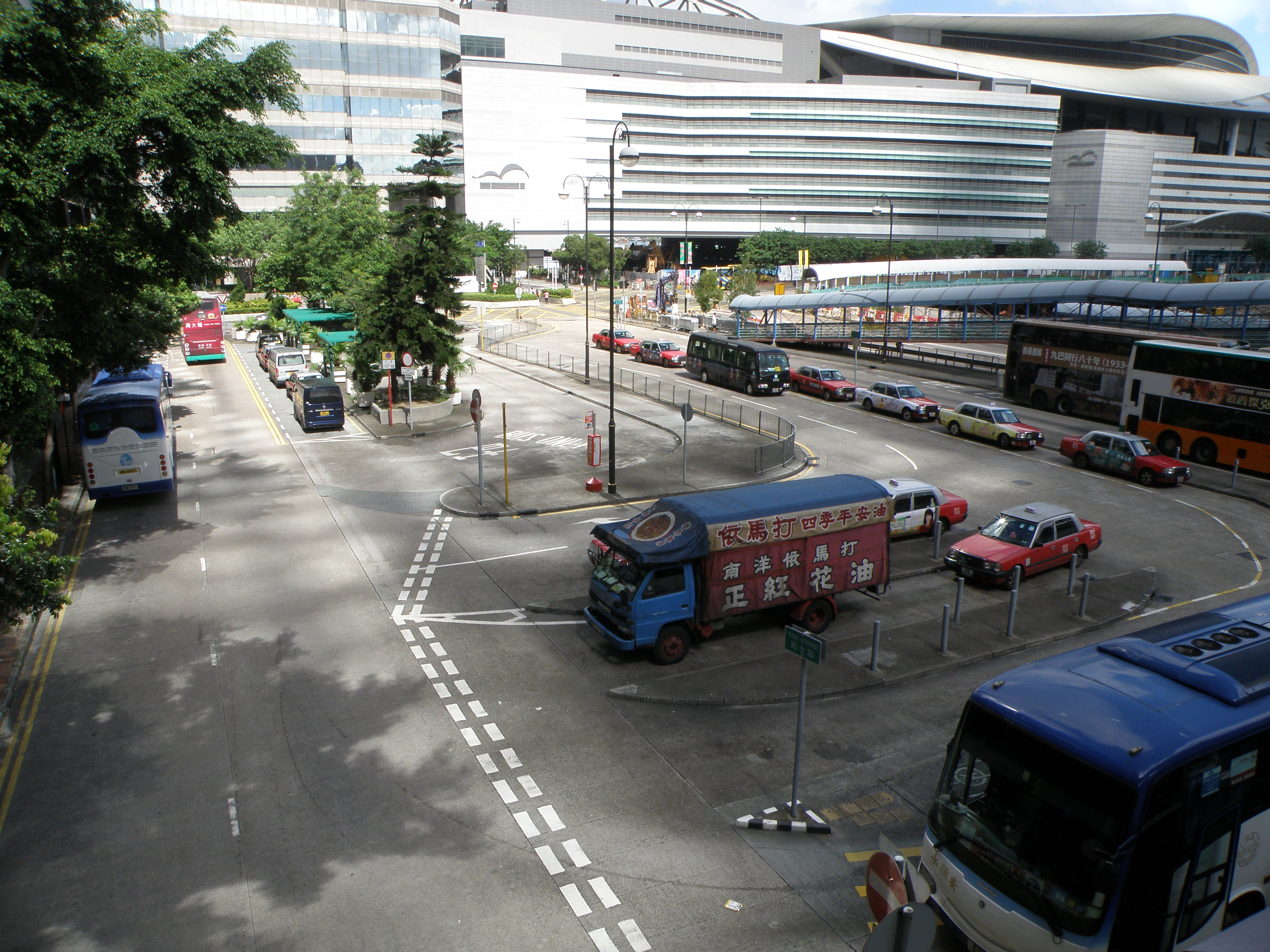 Proposed west construction site of Exhibition Station (MTR)